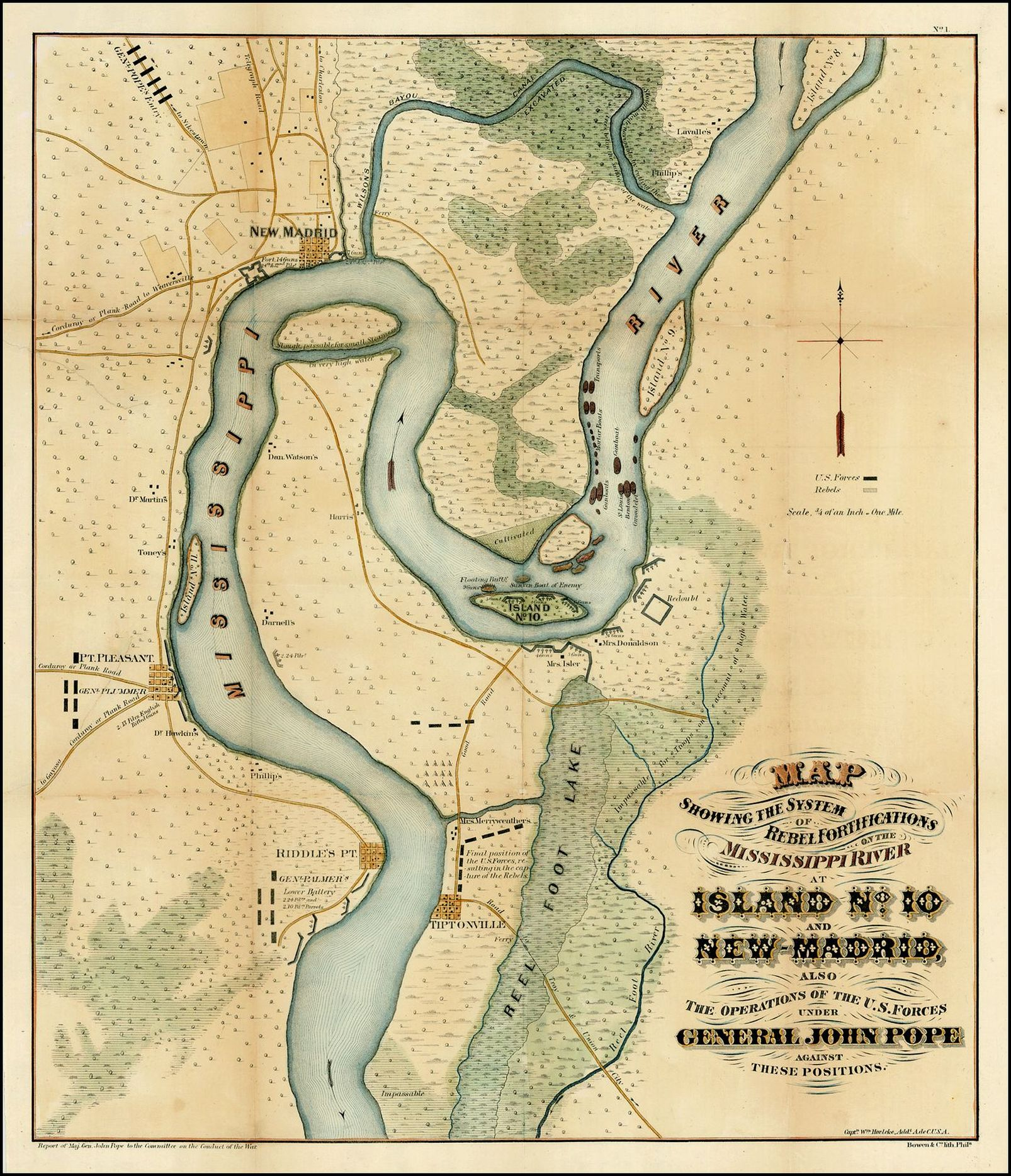 Map Showing the System of Rebel Fortifications on the Mississippi River at Island No. 10 and New Madrid also the Operations of the U.S. Forces Under General Pope Against These Positions